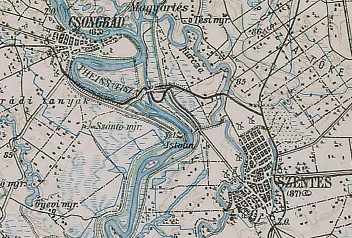 Szentes–Csongrád railway bridge on the map of the third military mapping survey of Austria-Hungary